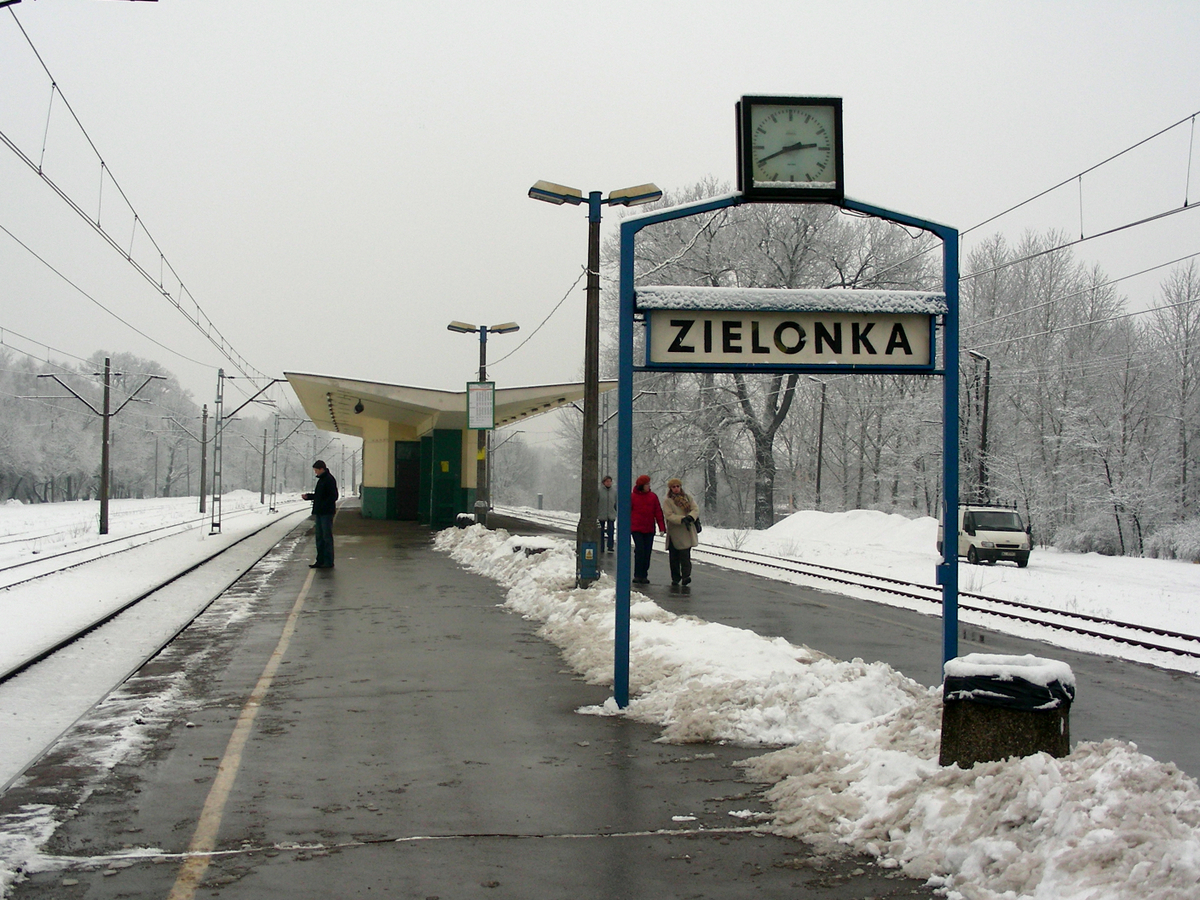 Rail road station in Zielonka.